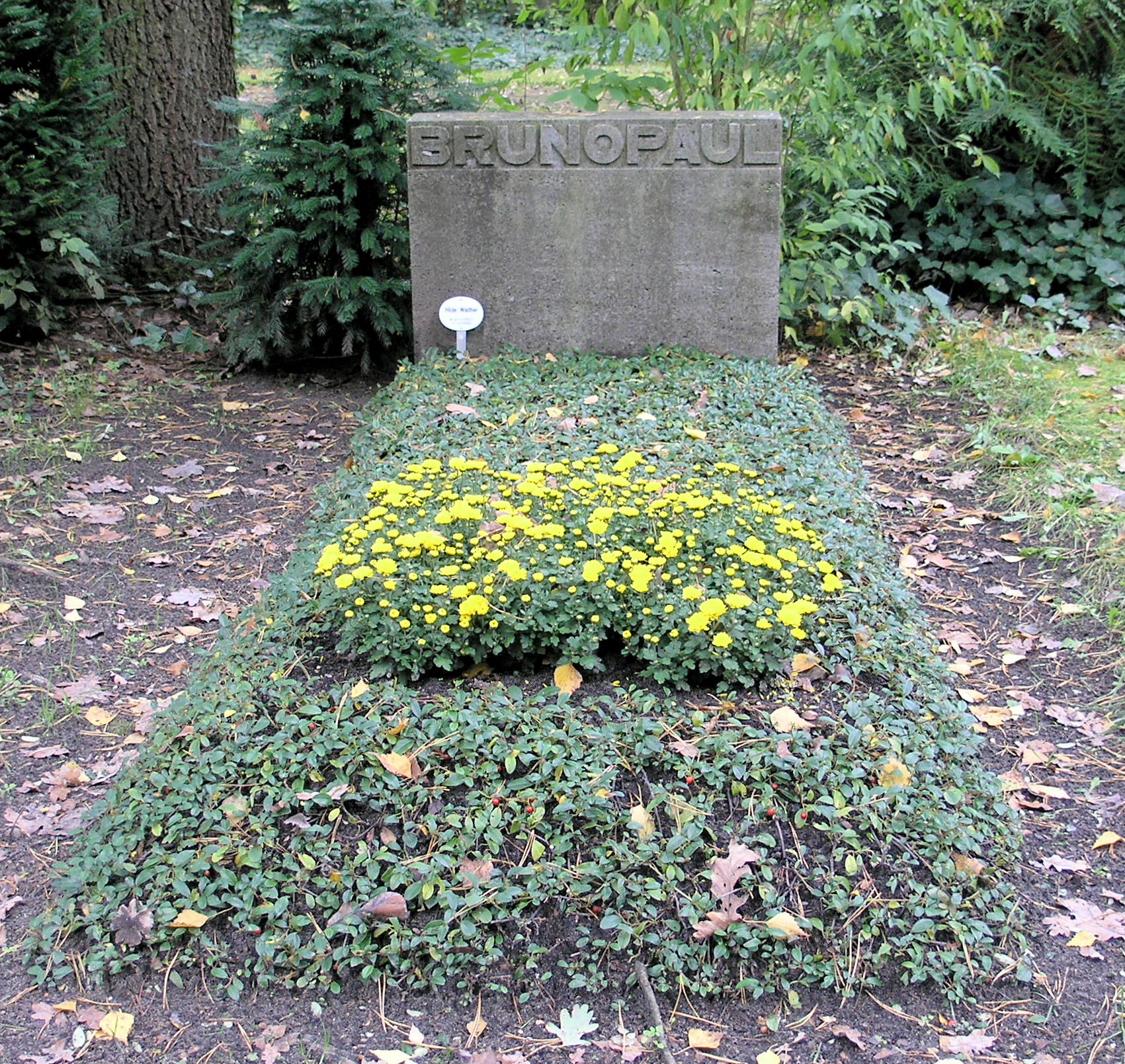 "Ehrengrab" (grave of honor), Bruno Paul, Potsdamer Chaussee 75, Berlin-Nikolassee, Germany Koordinate:52°25′23″N 13°12′38″E / 52.42306°N 13.21056°E